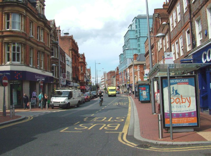 This is Friar Street looking west from its junction with Merchants Place.